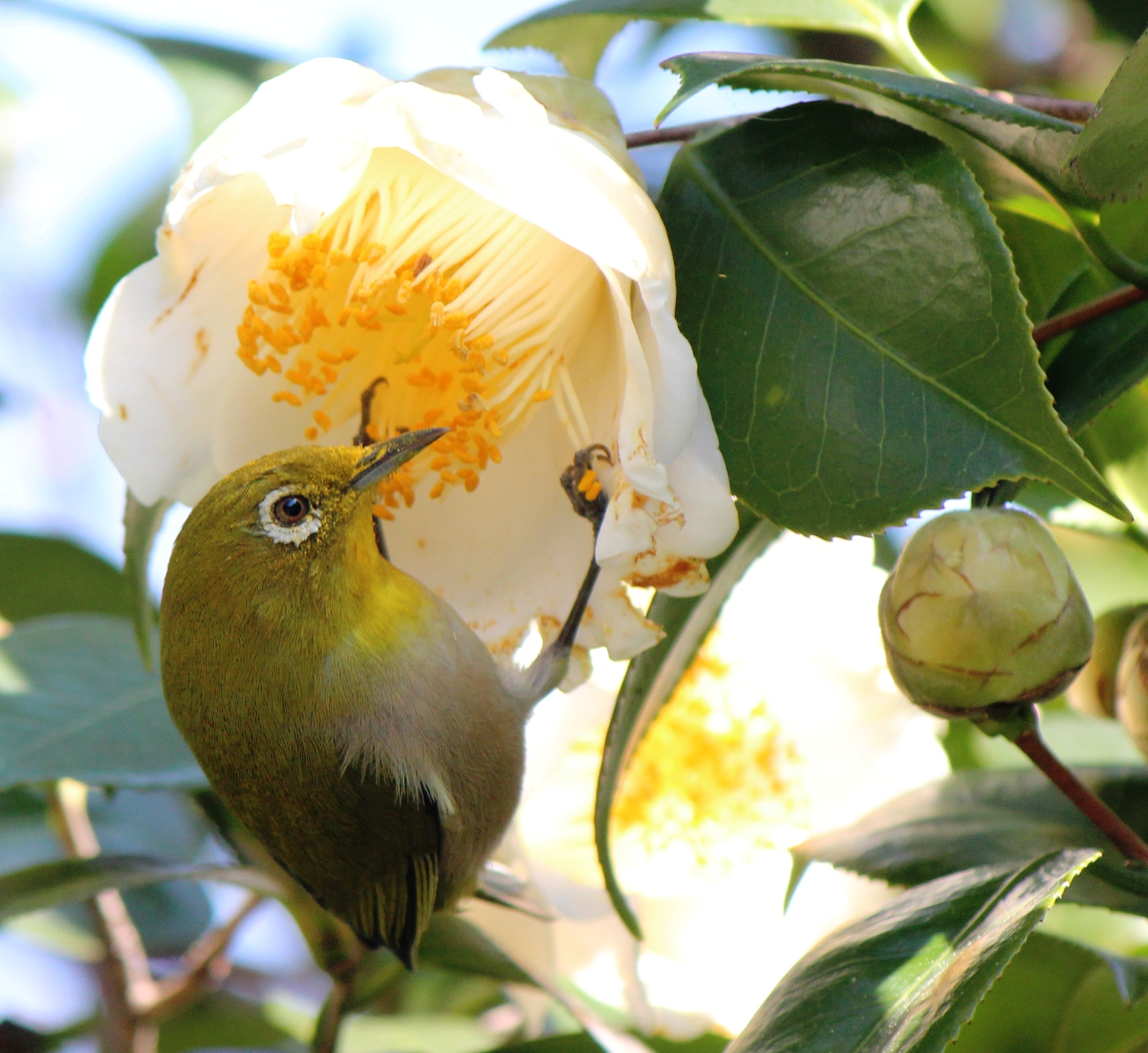 Zosterops japonicus japonicus (Japanese White-eye) sucking up the honey of the flower of Camellia japonica (Camellia) in Japan.